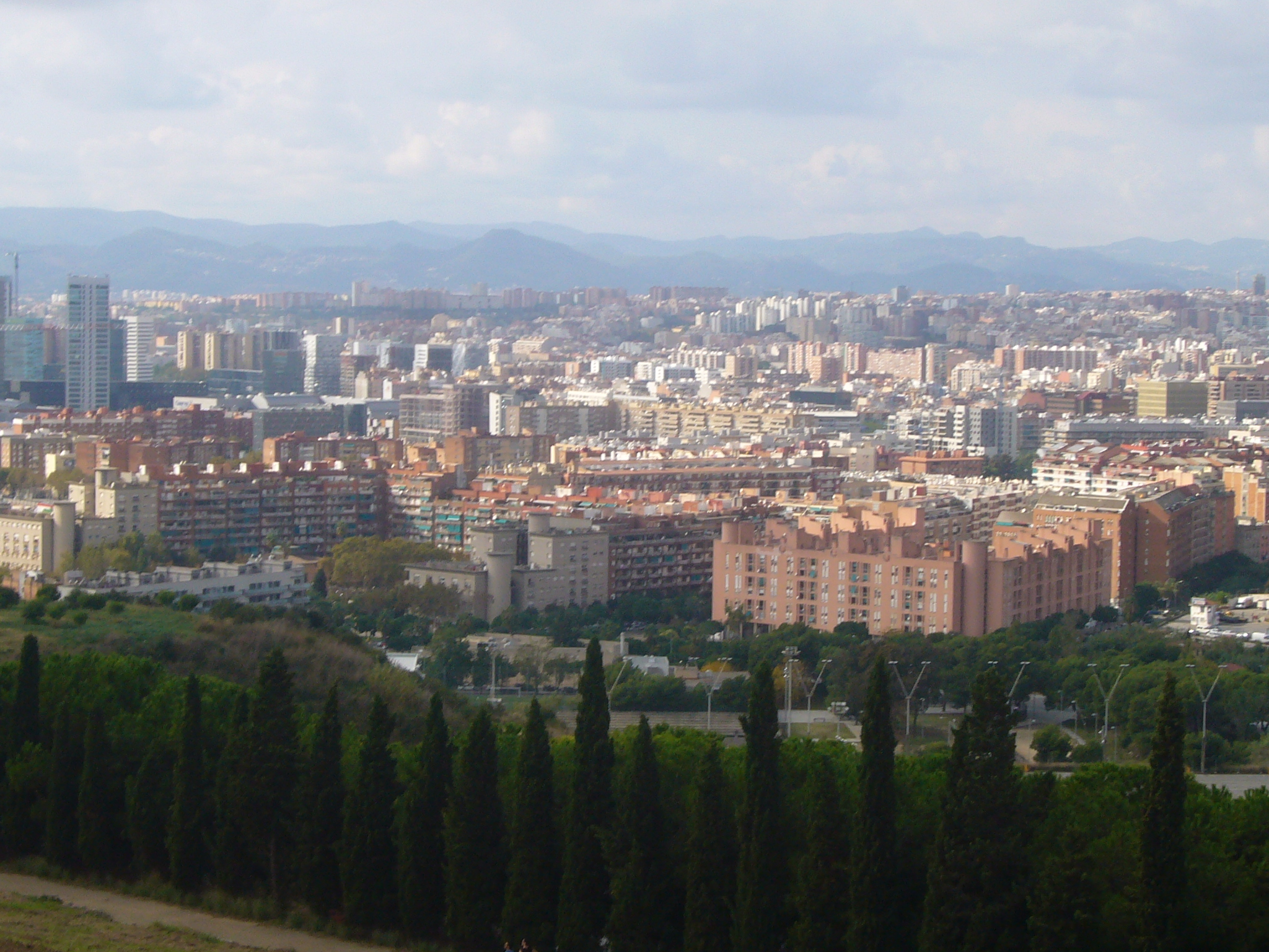 Barri de La Marina de Port, vist des del mirador de migdia a la sortida del cementiri de Montjuïc